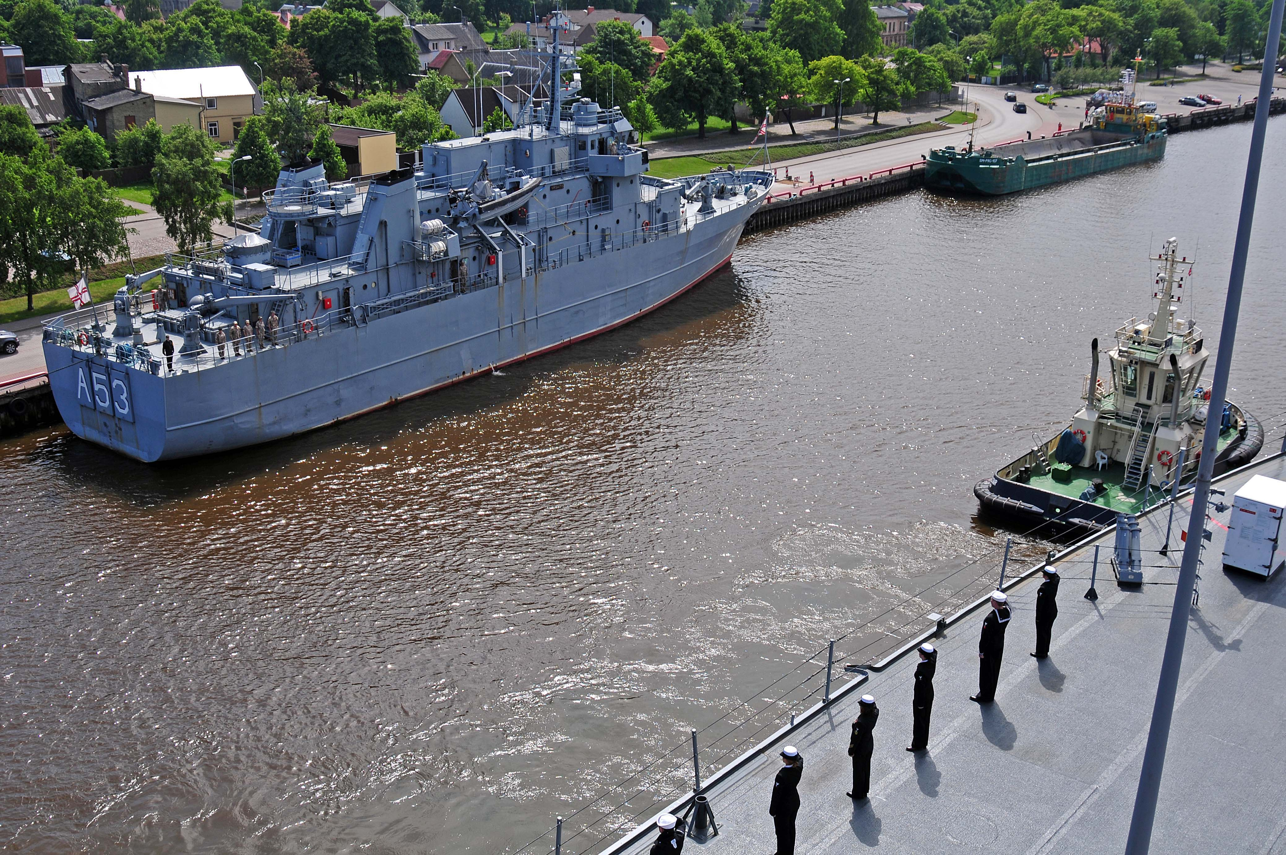 Latvian sailors assigned to the mine layer LVNS Virsaitis (A53), left, render honors to the U.S. 6th Fleet command ship USS Mount Whitney (LCC 20) as the Mount Whitney departs Ventspils, Latvia, during Baltic Operations (BALTOPS) 2013 June 10, 2013. BALTOPS is a joint and combined exercise designed to enhance multinational maritime capabilities and interoperability between the U.S. and European nations in the Baltic region.